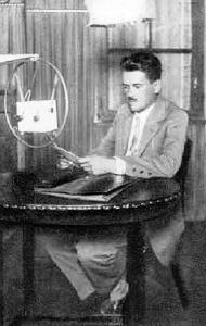 Silvo Kranjec (1892-1976), Slovene historian and geographer